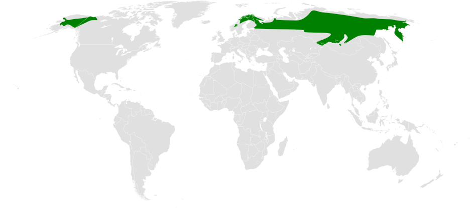 Poecile cinctus distribution map, based on